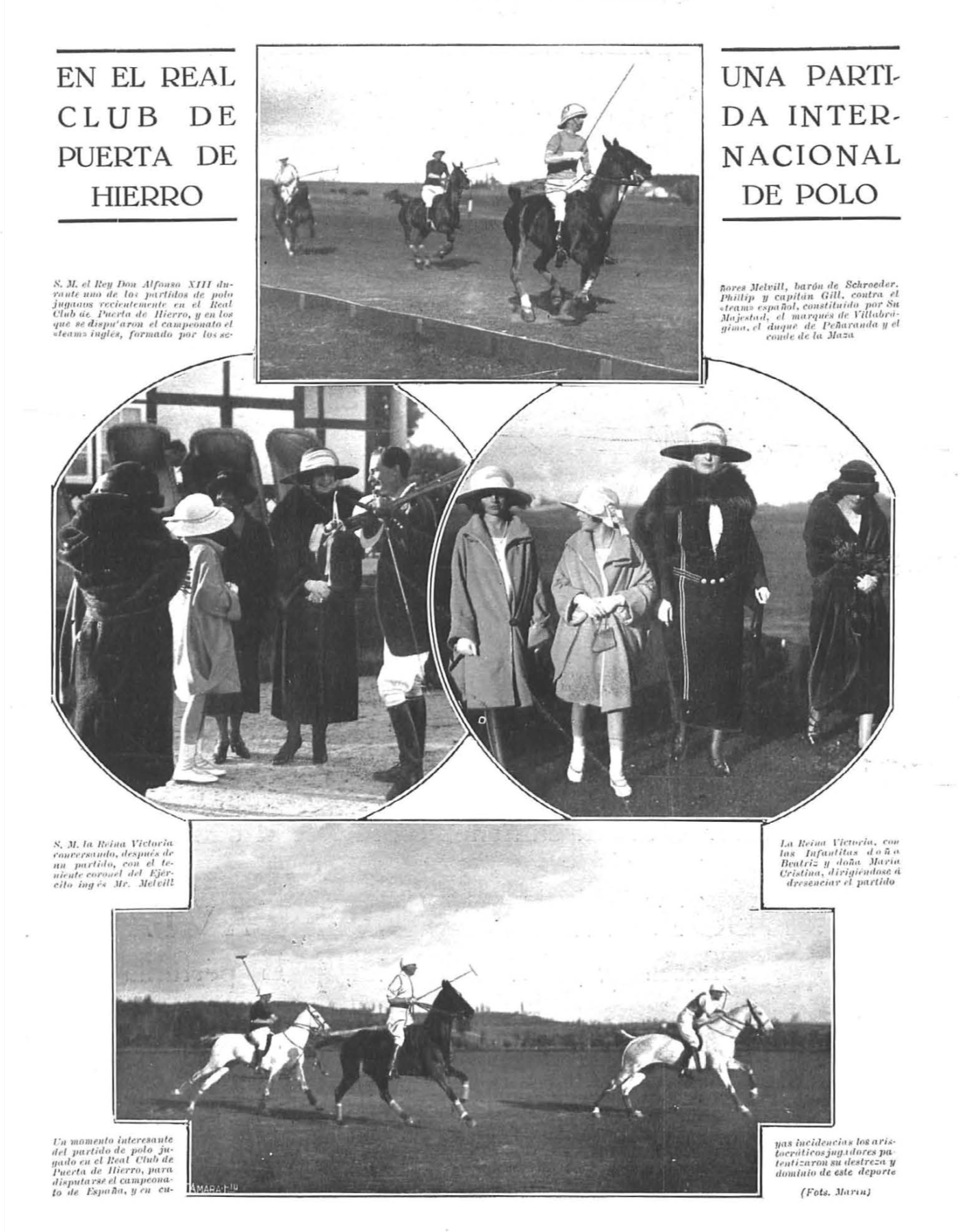 Polo match between UK and Spain at the aristocratic "Real Club de la Puerta de Hierro". Team GB: The Baron Schroeder, Captain Frederick Agnew Gill, Teignmouth P. Melvill and Mr. Phillip. Team Spain: H.M. King Alfonso XIII, the Marquess of Villabrágima, the Duke of Peñaranda and the Count of la Maza